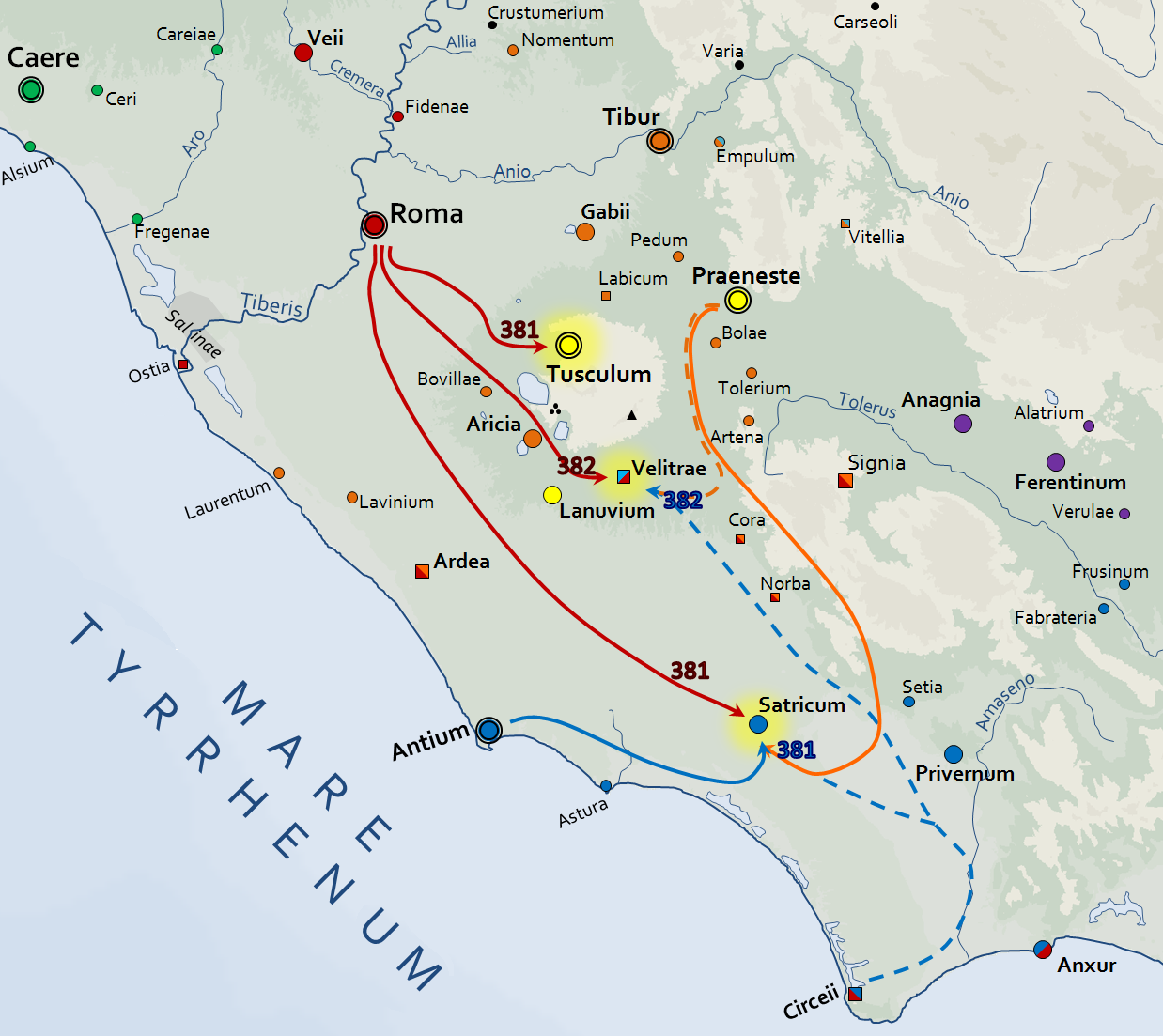 See File:Carte GuerresRomanoVolsques 389avJC.png for the broad map.